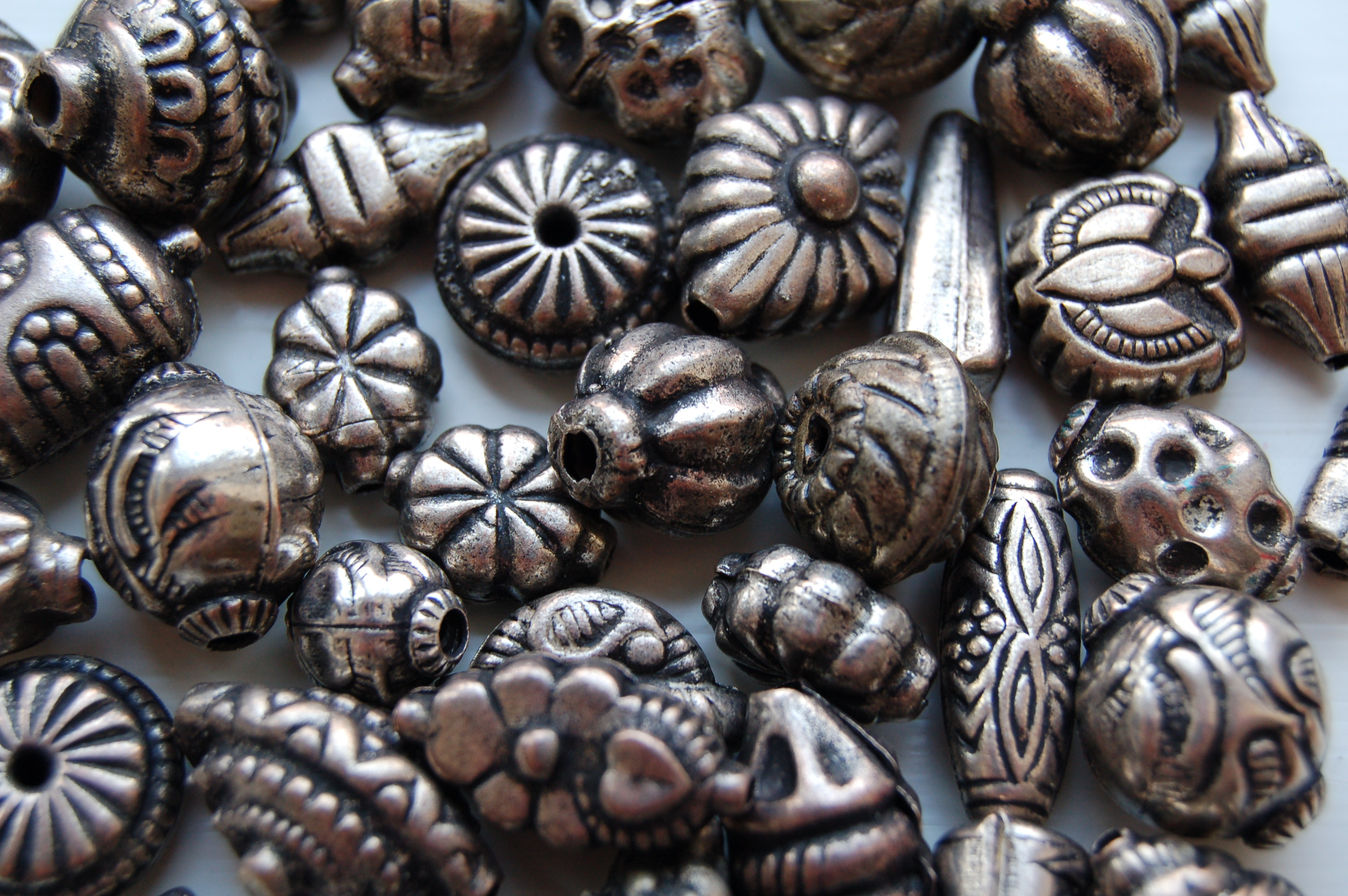 Photo of metal beads